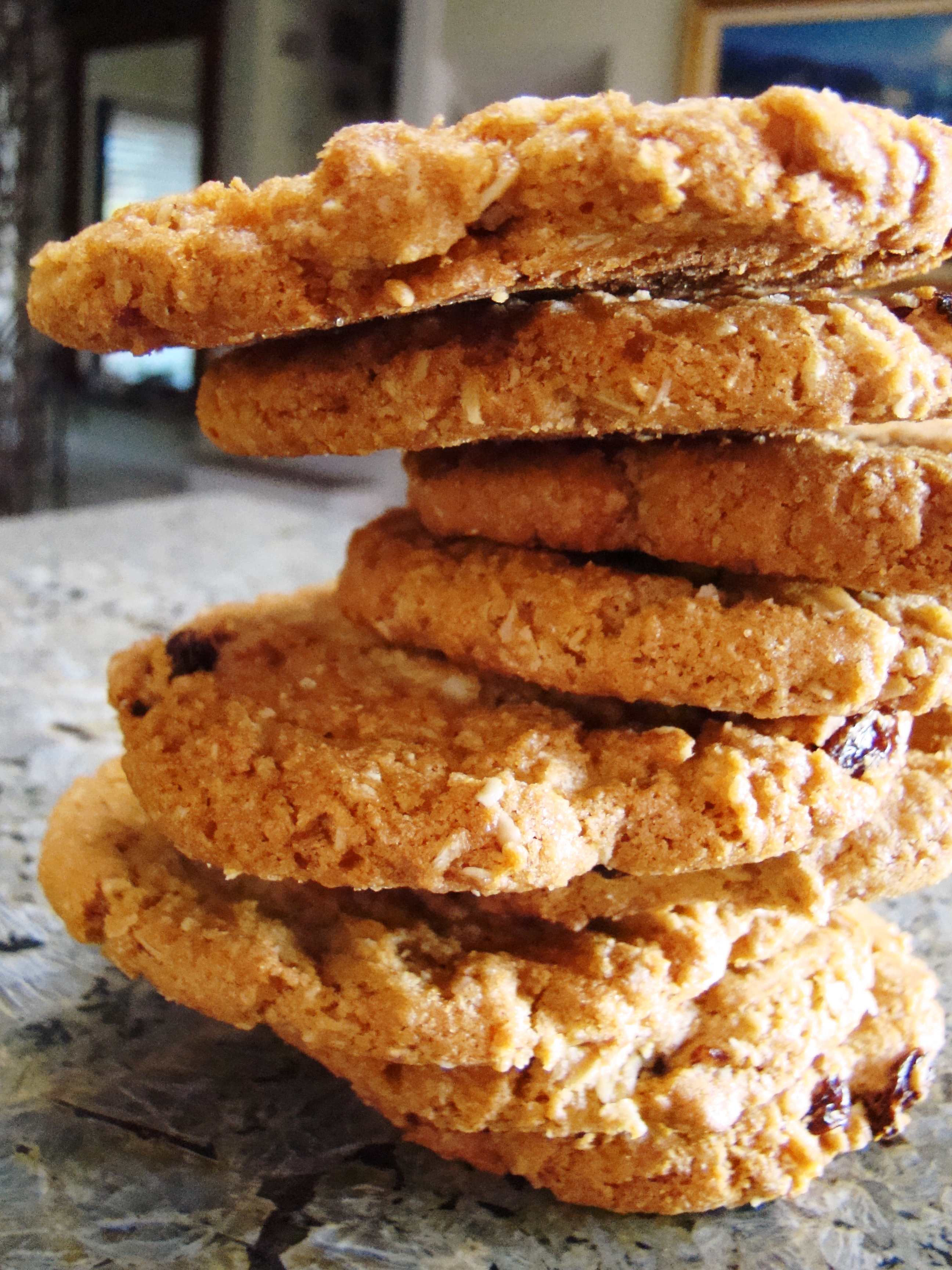 Recipe coming up. 3/4 cup vegetable margarine 3/4 cup raw sugar 3/4 cup packed light brown sugar Egg Replacer for 2 eggs 1 teaspoon vanilla extract 1 1/4 cups all-purpose flour 1 teaspoon baking soda 3/4 teaspoon ground cinnamon 1/2 teaspoon salt 2 3/4 cups rolled oats 1 cup raisins Mix together and drop by tablespoon on cookie sheet- bake at 400 degrees for 8-10 minutes. Makes 20 or so palm sized cookies.